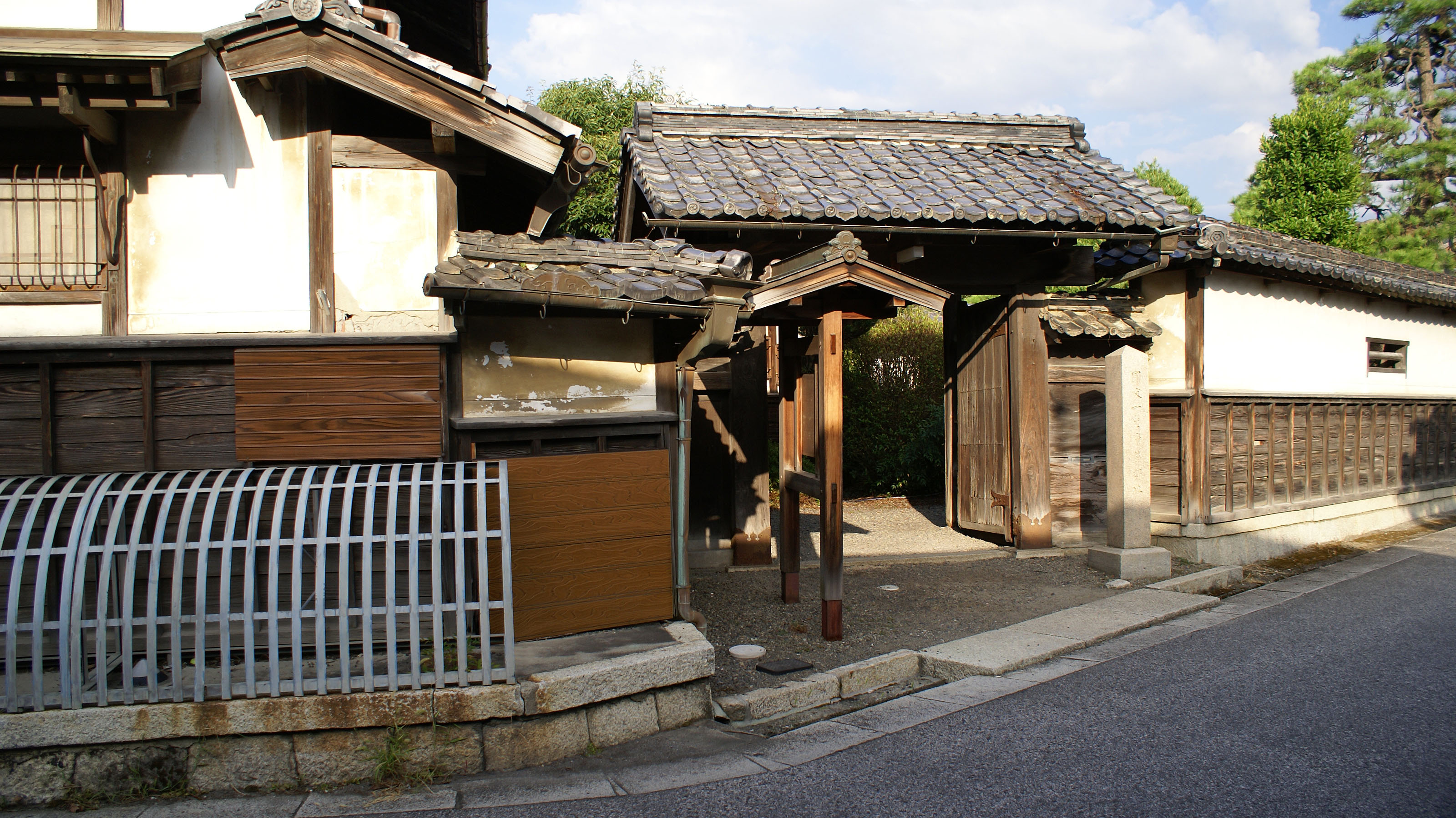 Scenery of the Kunitomo in Nagahama, Shiga, Japan